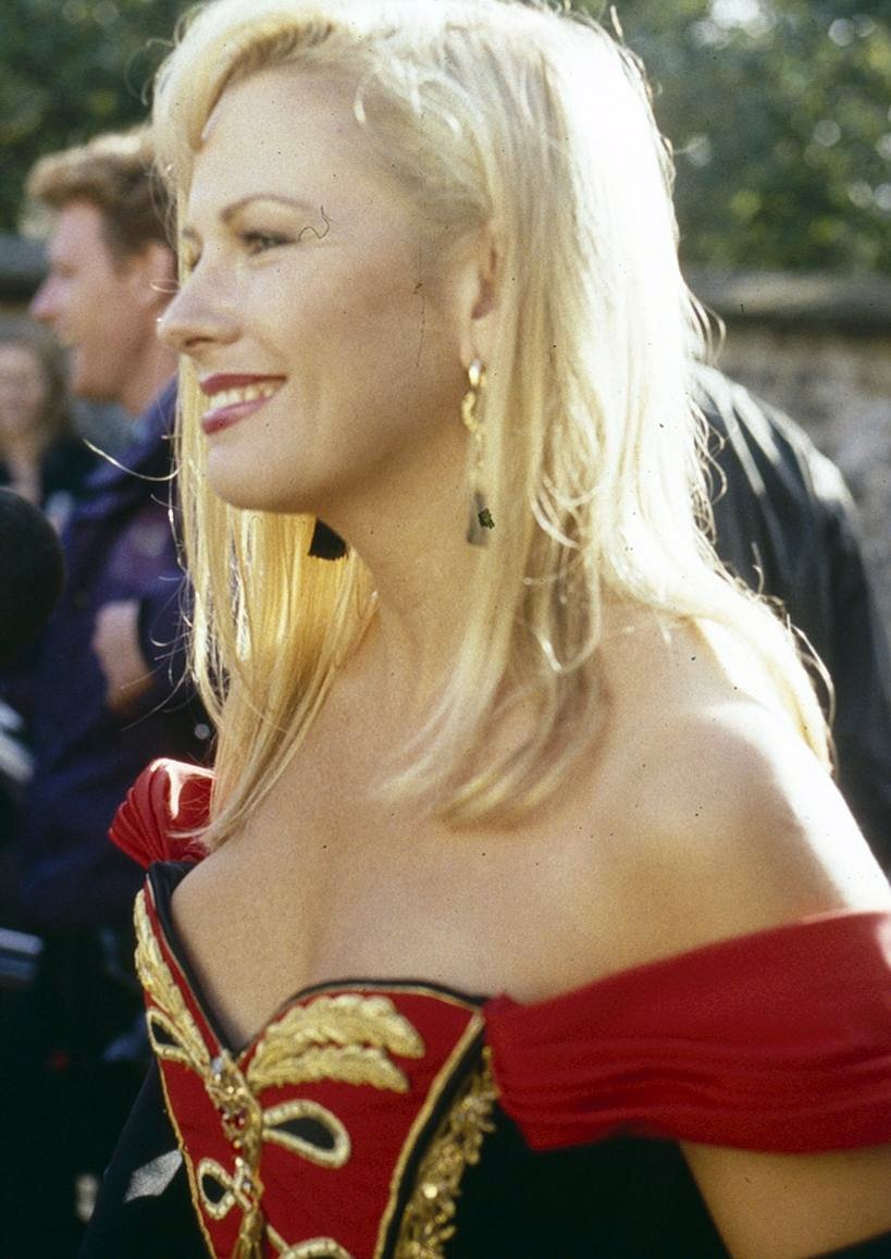 New Zealand-born actress, comedian, and psychologist Pamela Stephenson Connolly at the blessing (religious ceremony after civil wedding) of Sting and Trudie Styler, Great Durnford.